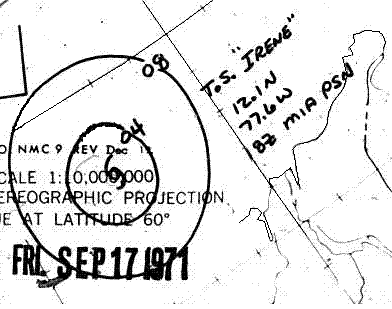 This portion of the September 17, 1971 18z North American Surface Analysis shows a depiction of Tropical Storm Irene